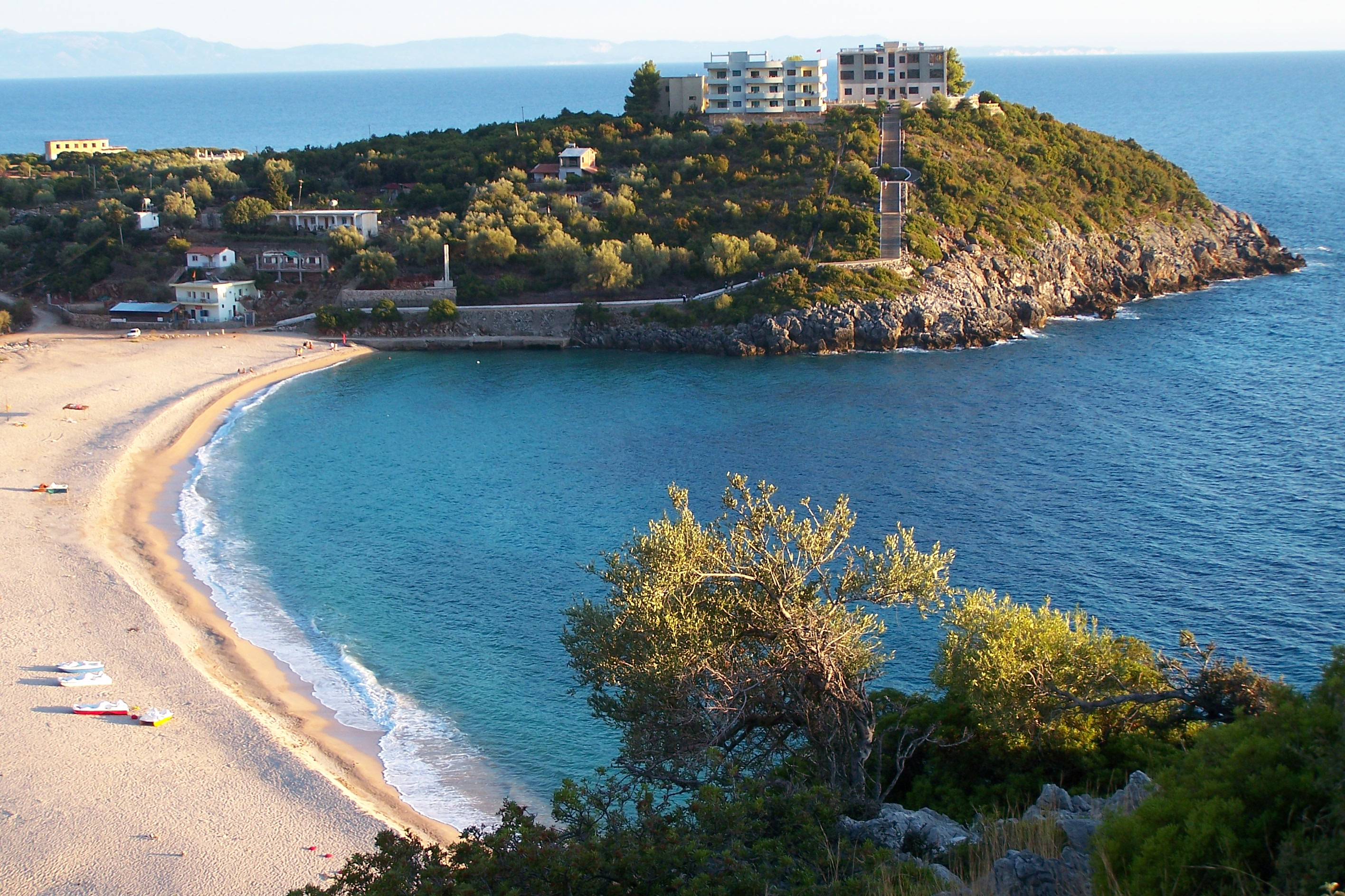 Jala beach, Vlorë District, Albania